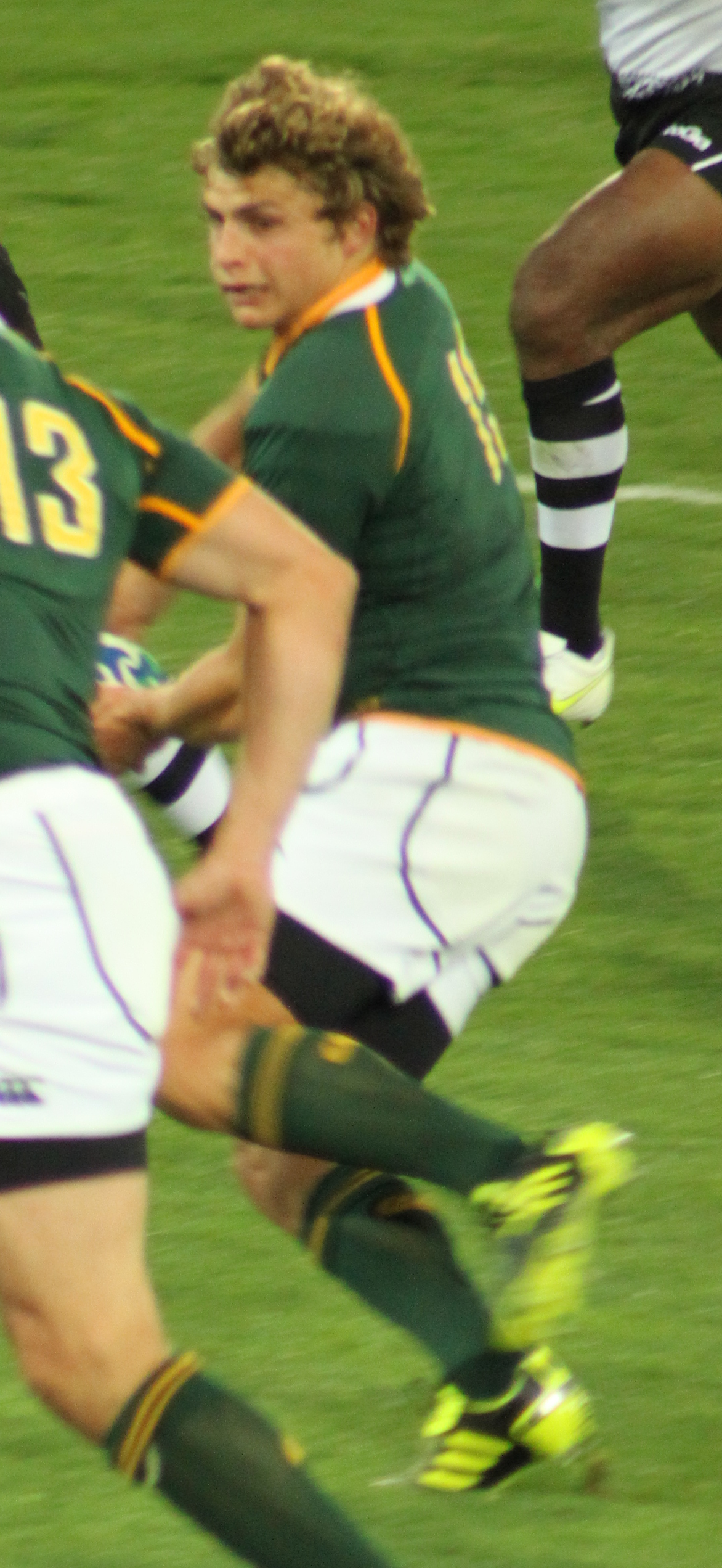 Match between South Africa and Fiji during 2011 Rugby World Cup in New Zealand.